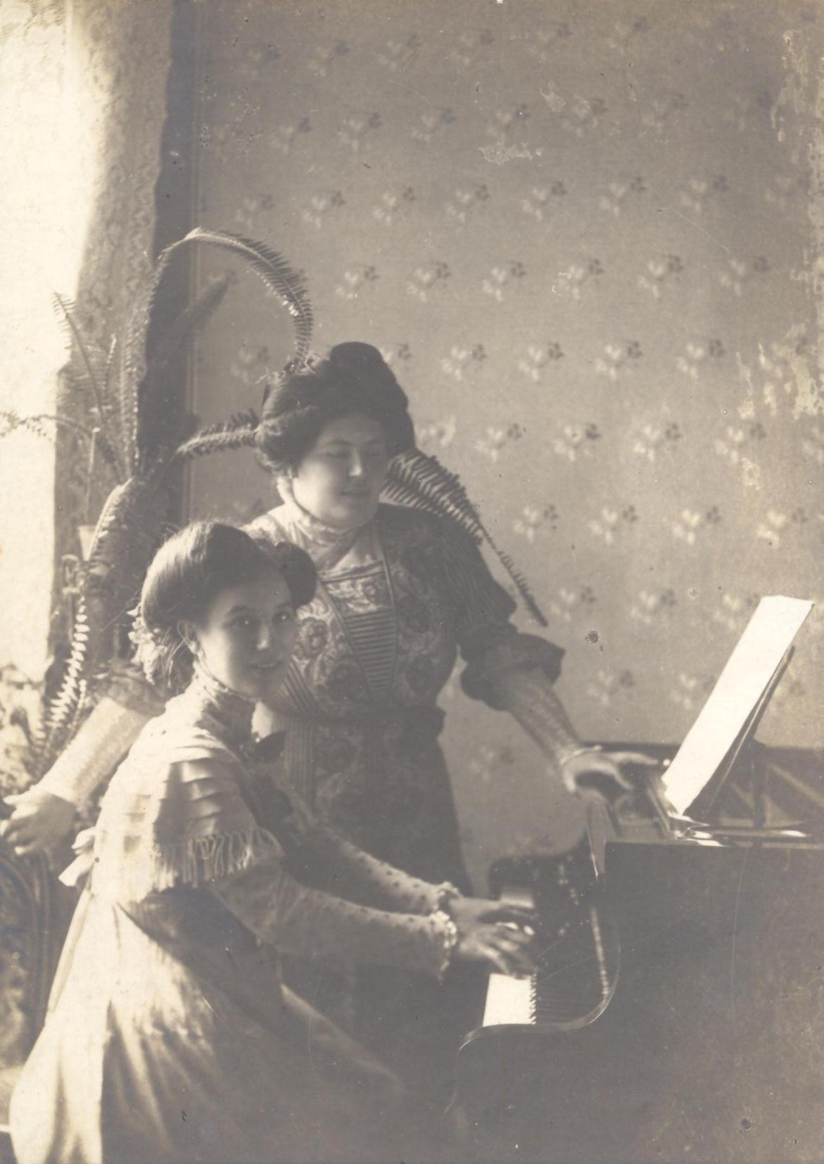 Bulgarian pianist Lyudmila Prokopova and opera singer Hristina Morfova